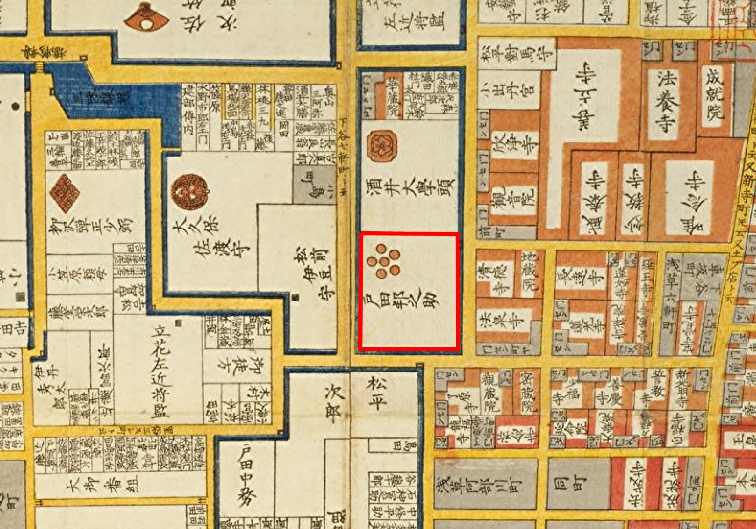 Residence Toda Clan at Edo Asakusa